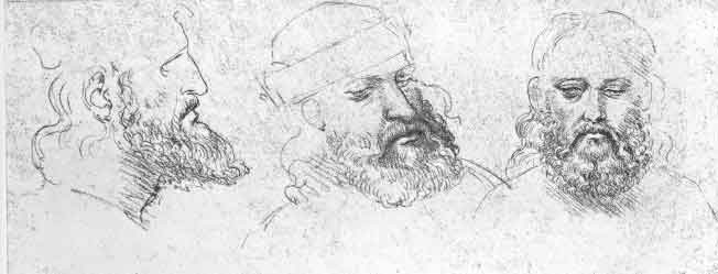 Three sketches of the head of a man by Leonardo da Vinci, executed during the period in which he worked as chief engineer and architect for Cesare Borgia, who is thought to be the subject.